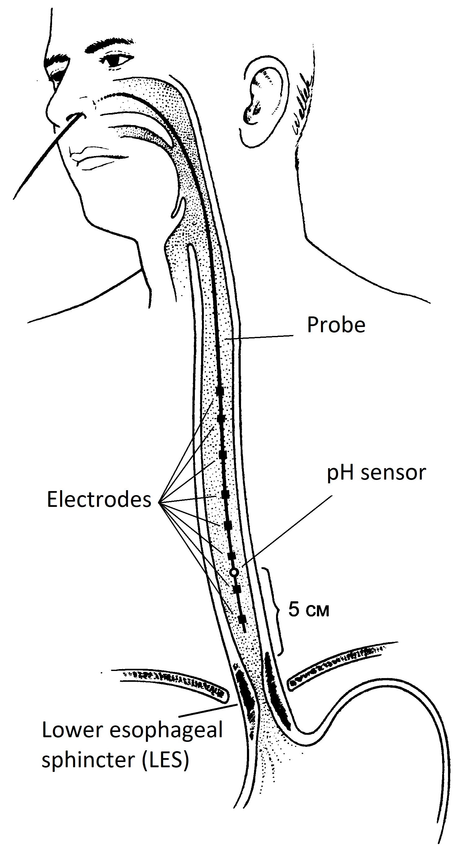 Impedance–pH monitoring. Source is from Russian Wikipedia site (Файл:Схема совместной импедансометрии и рН-метрии.jpg) which was released by author to public domain. The Russian text has been translated to English.